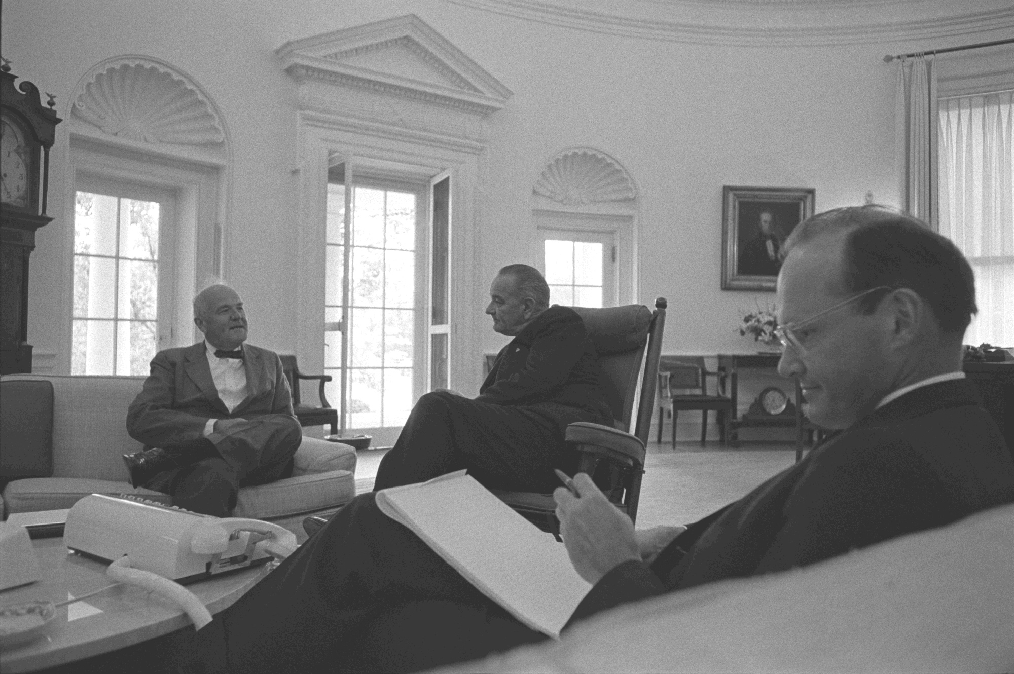 President Lyndon B. Johnson meeting on Vietnam with Arthur Dean and McGeorge Bundy